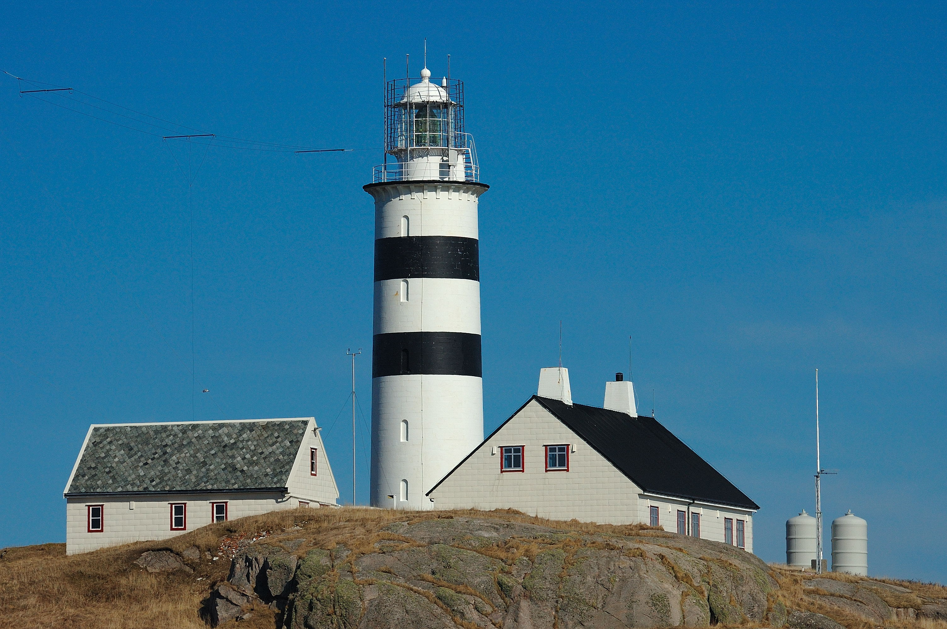 Halten lighthouse seen from south.